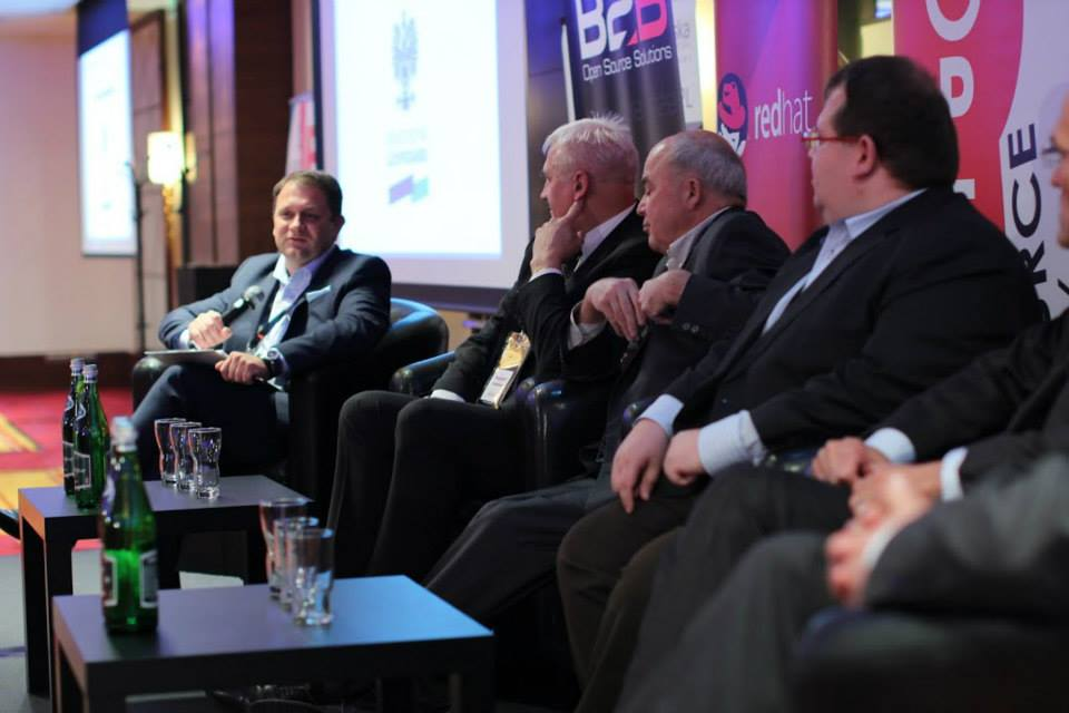 Deputy Minister of Economy, Dariusz Bogdan, talking with other panelists about open source and its impact on digitization - Open Source Day 2014 Conference in Warsaw